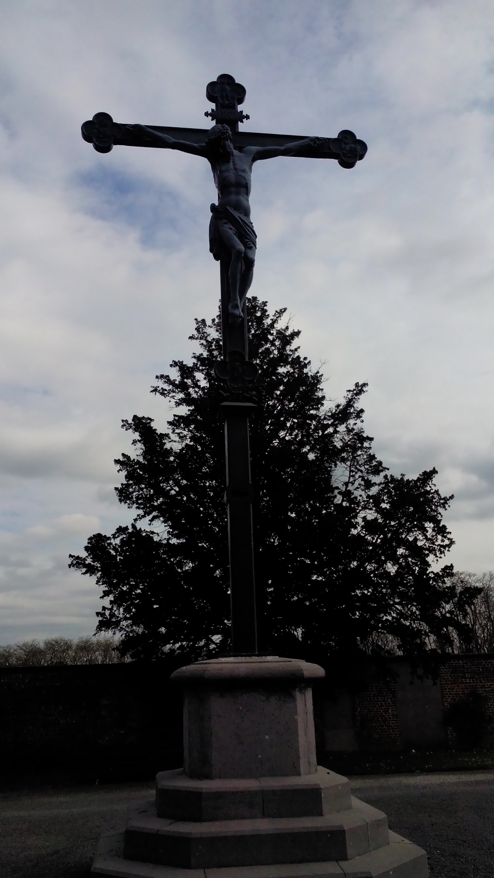 Main cross on cemetary of Leuven